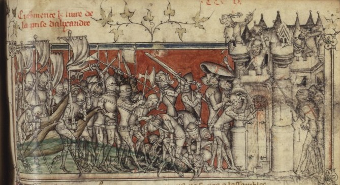 Miniature of the sack of Alexandria (1365), manuscript from Reims, illustrating La prise d'Alexandrie, ou Chronique du roi Pierre Ier de Lusignan by Guillaume de Machaut.